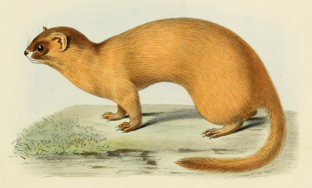 Taiwanese kolonok (M. s. davidiana)